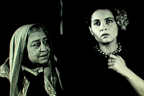 Italian Actresses Bella Starace Sainati and Edda Albertini in the Play La casa de Bernarda Alba""